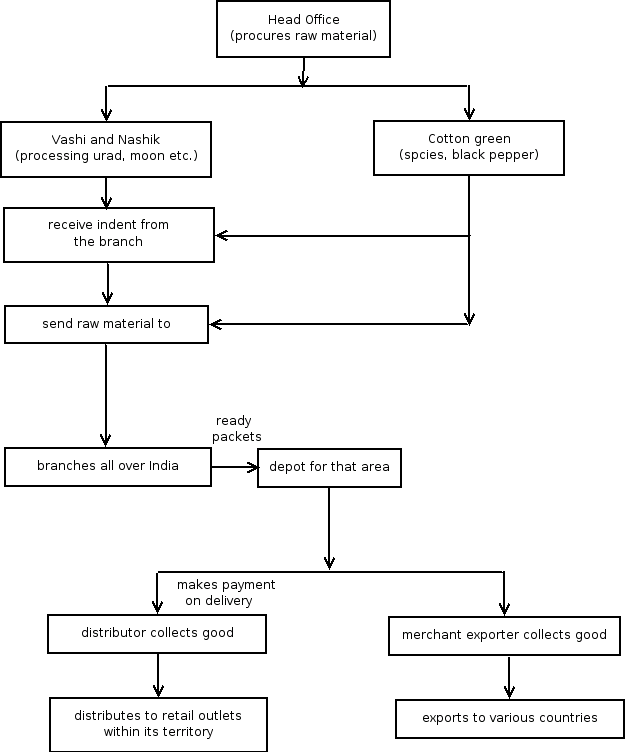 Distribution flowchart of Shri Mahila Griha Udyog Lijjat Papad, based on [1]